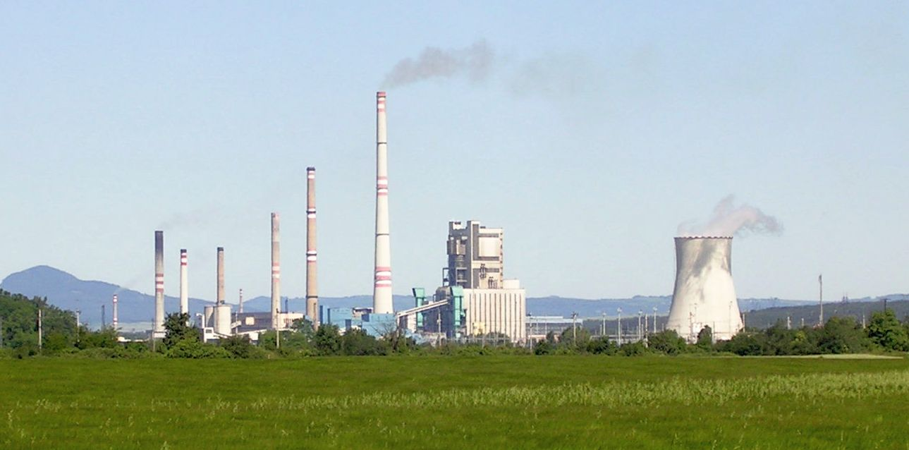 Horní Počaply, Mělník District, the Czech Republic. Coal-fired thermal power station of Mělník. - Google Maps - Google Earth